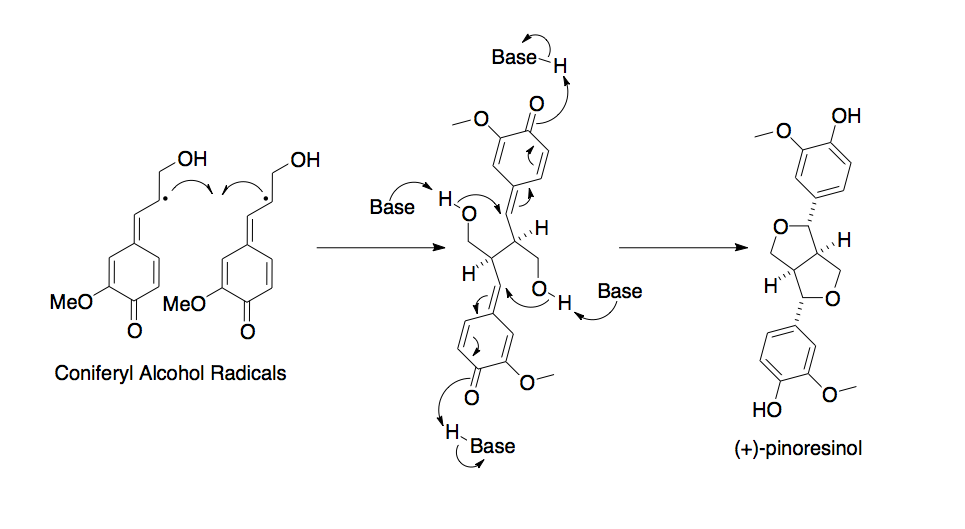 An arrow-pushing mechanism for the formation of (+)-pinoresinol from coniferyl alcohol radicals.